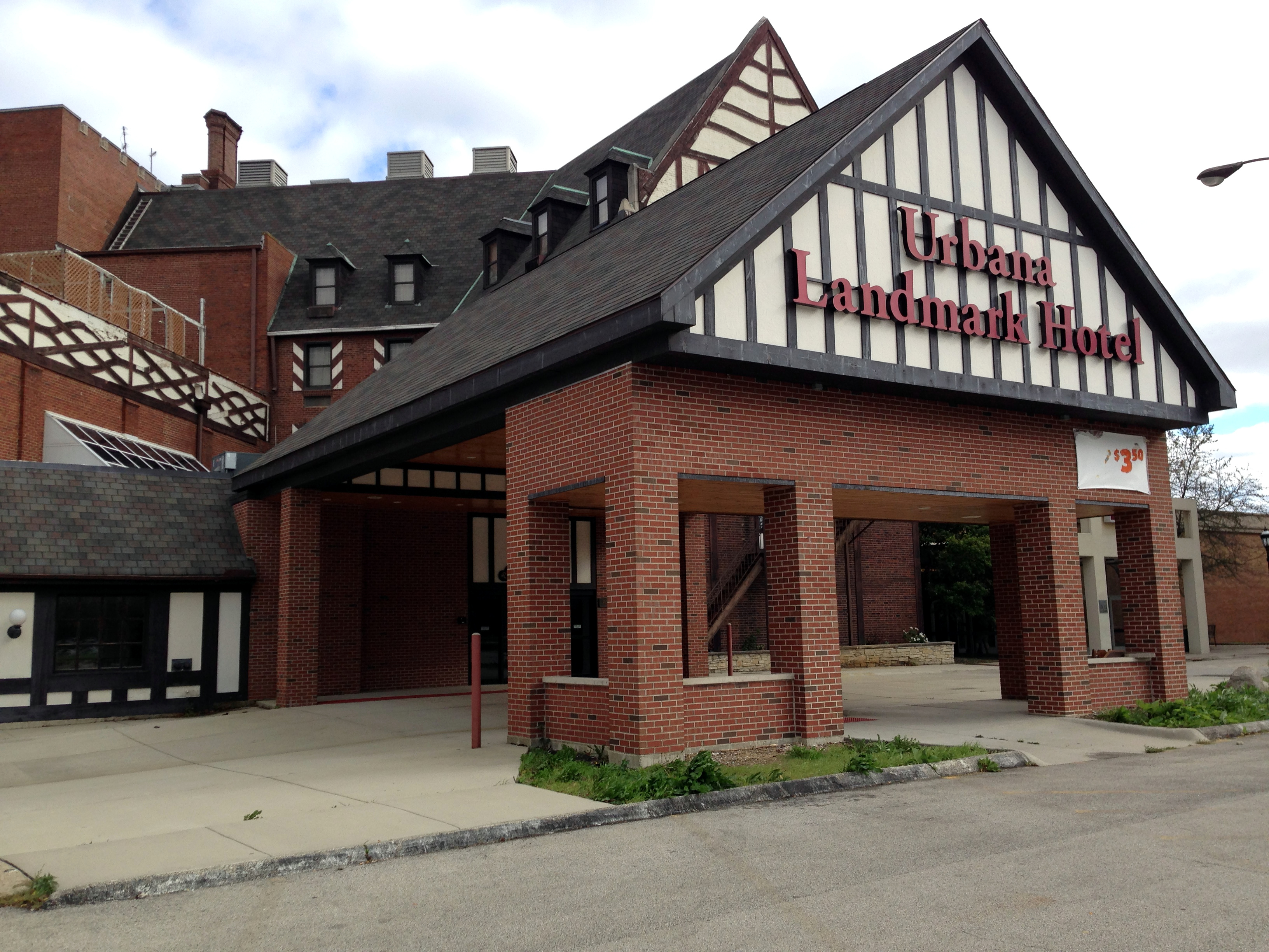 Entrance to the Urbana Landmark Hotel (no longer in operation)